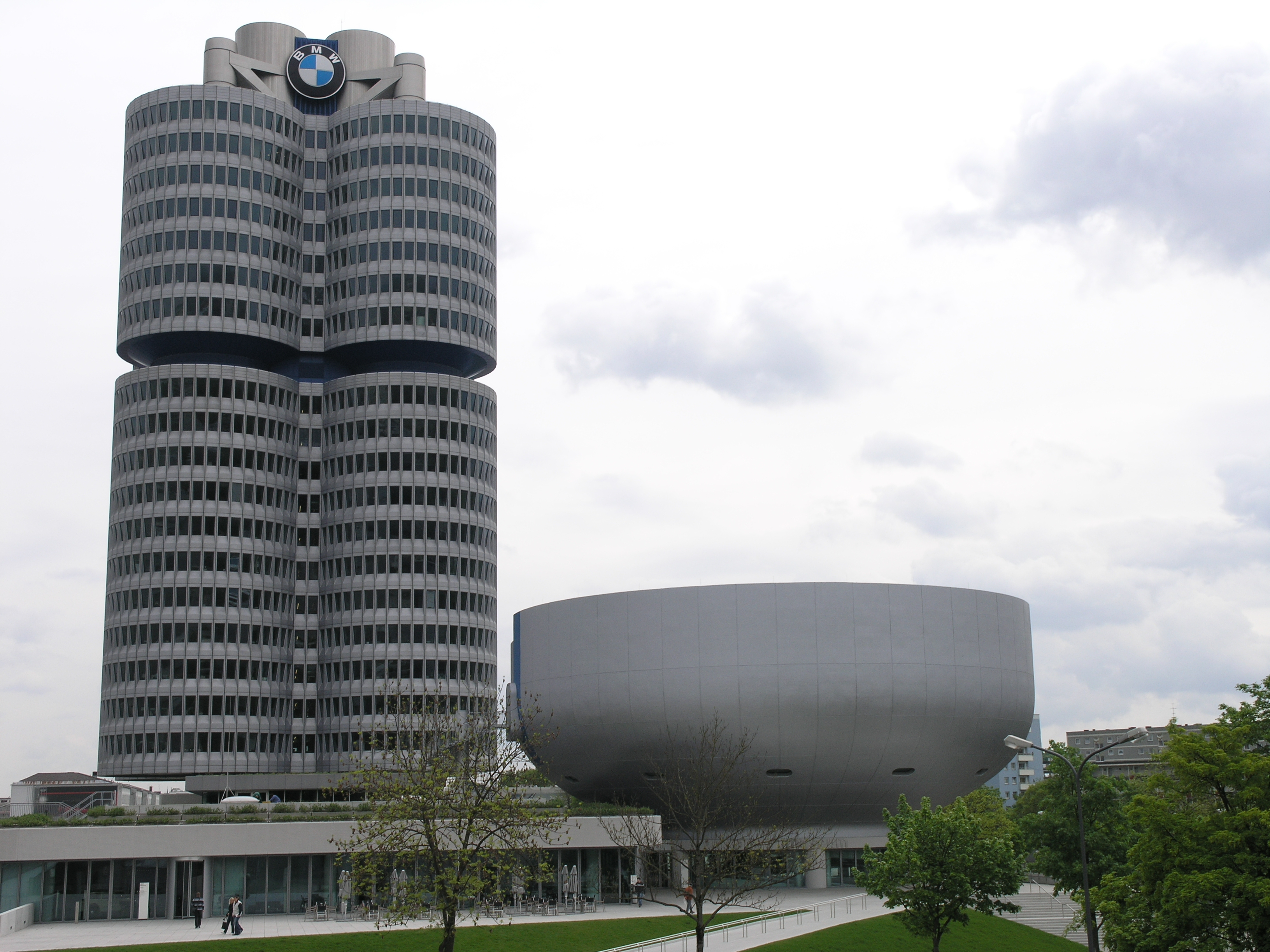 BMW Tower